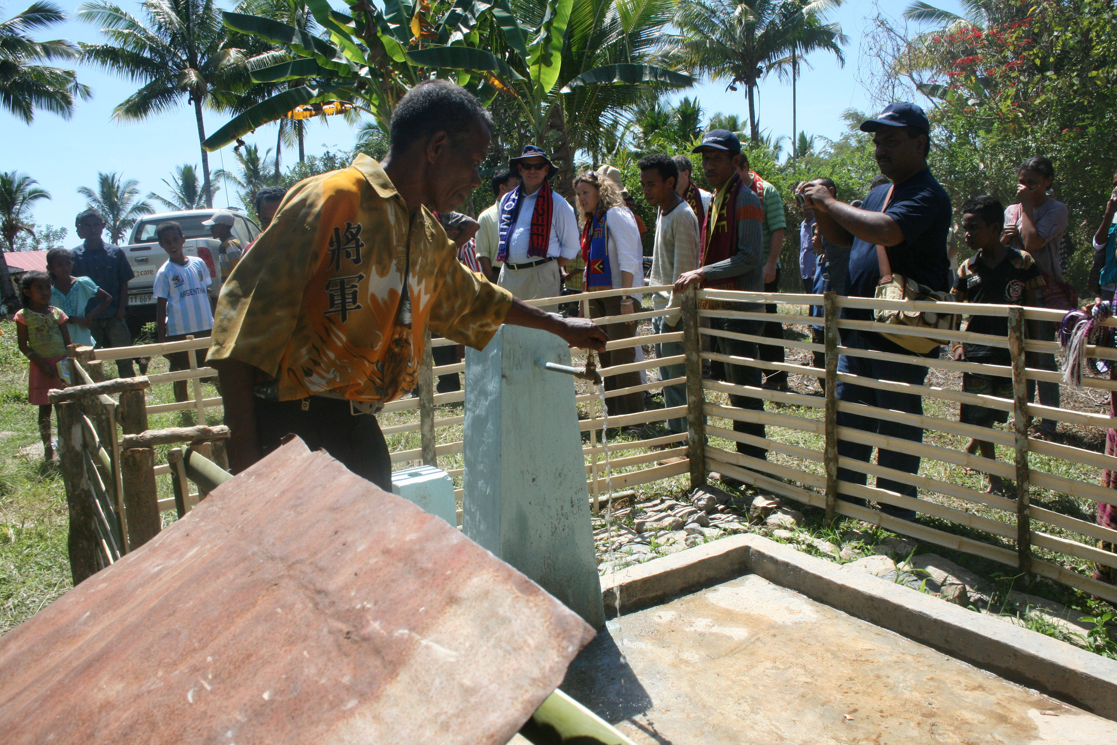 Clean, fresh water comes to the village. Timor Leste 2010